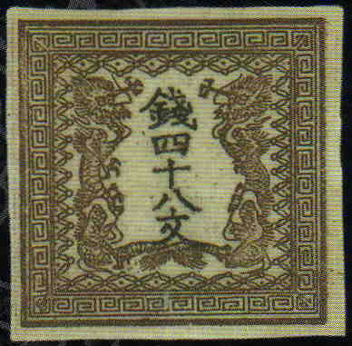 First issue Japanese stamp "Dragon 48mon stamp"